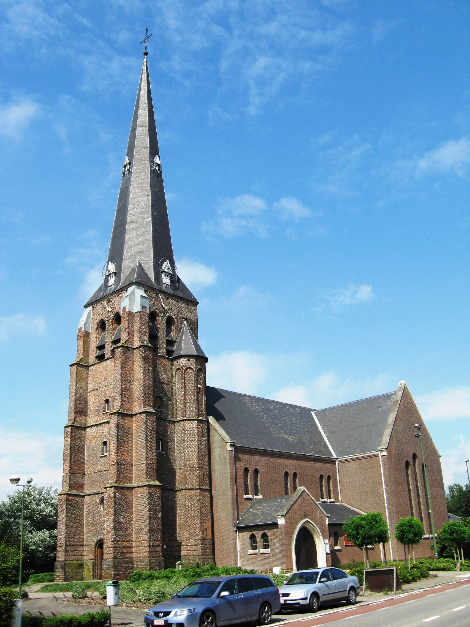 Church of Saint Lambert in Kwaadmechelen, Ham, Limburg, Belgium